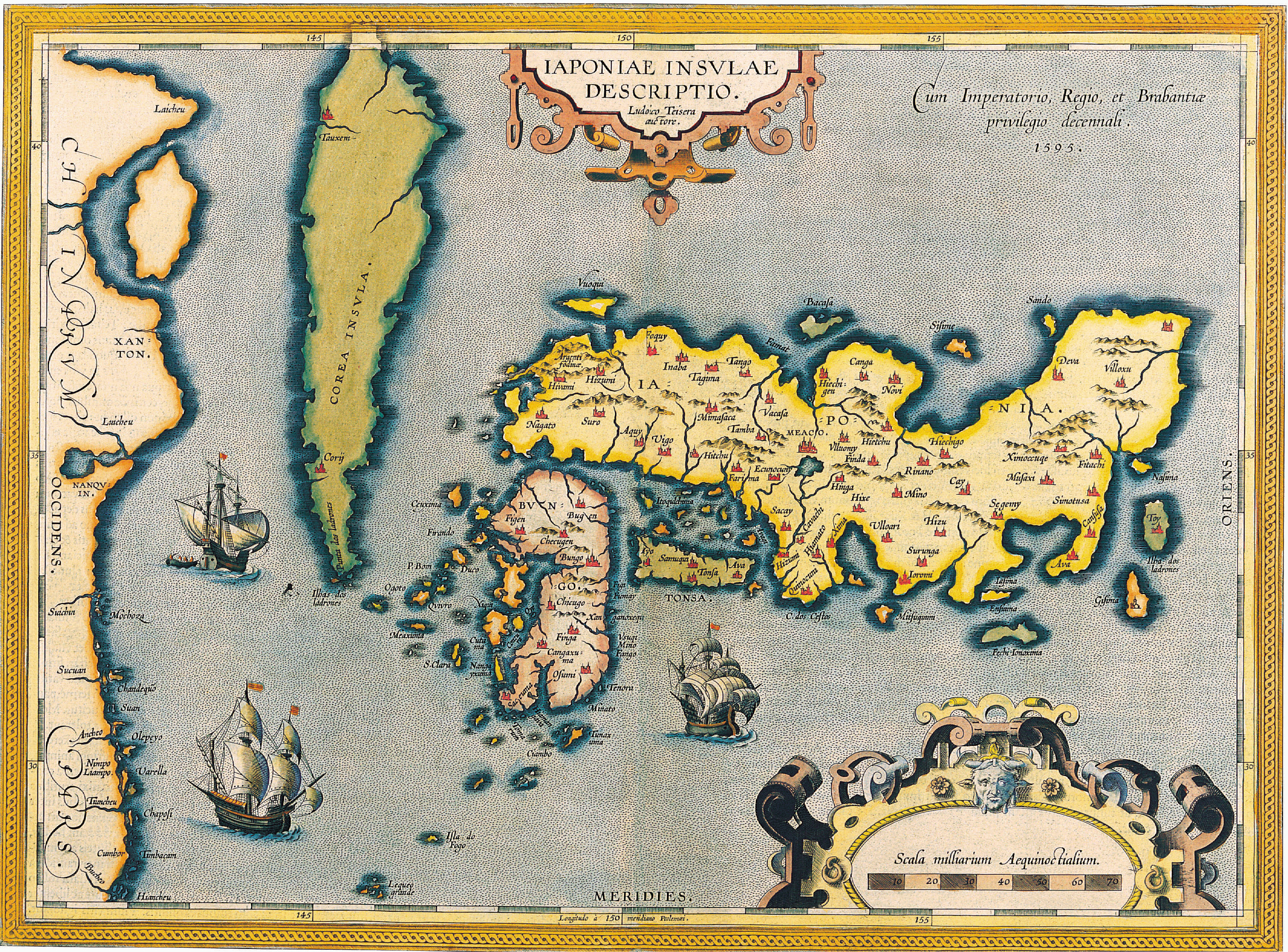 Antique Maps of the World Map of Japan Abraham Ortelius c 1590